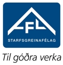 Logo